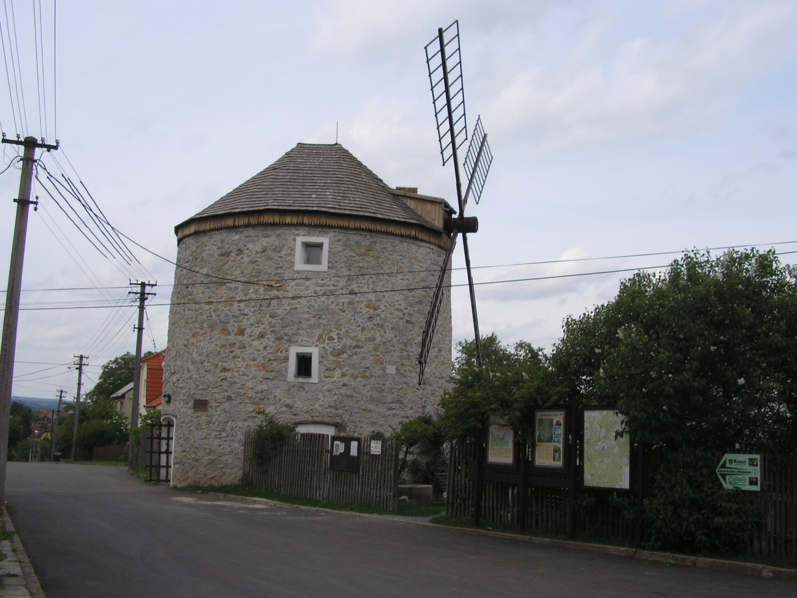 Windmill in Rudice Česky: Větrný mlýn v Rudici